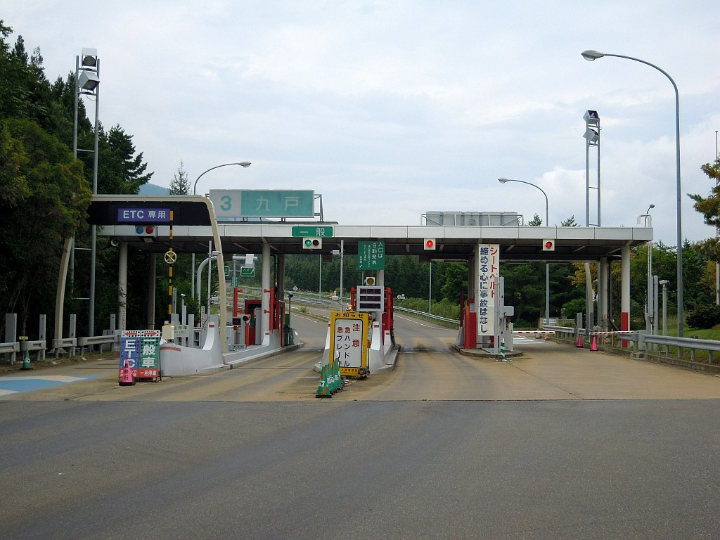 This Interchange, Kunohe Interchange, is on Hachinohe Expressway, in Kunohe Village, Iwate Prefecture, Japan.